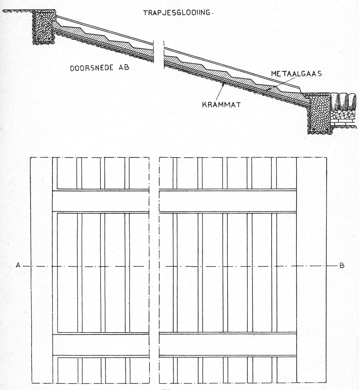 Concrete revetment according the system of ir. De Muralt (called Muraltglooiing or Trapjesglooiing). System is outdated because of problems with uneven settlement and low concrete quality.